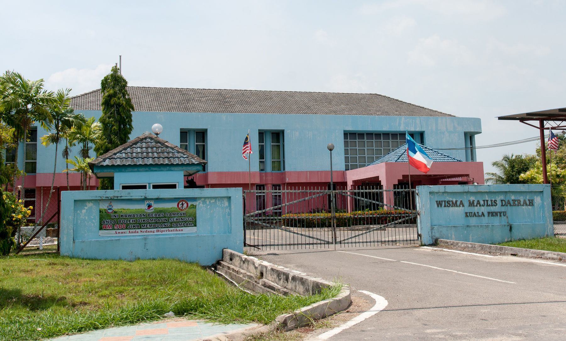 Administrative Building of Kuala Penyu District (Wisma Majlis Daerah Kuala Penyu)